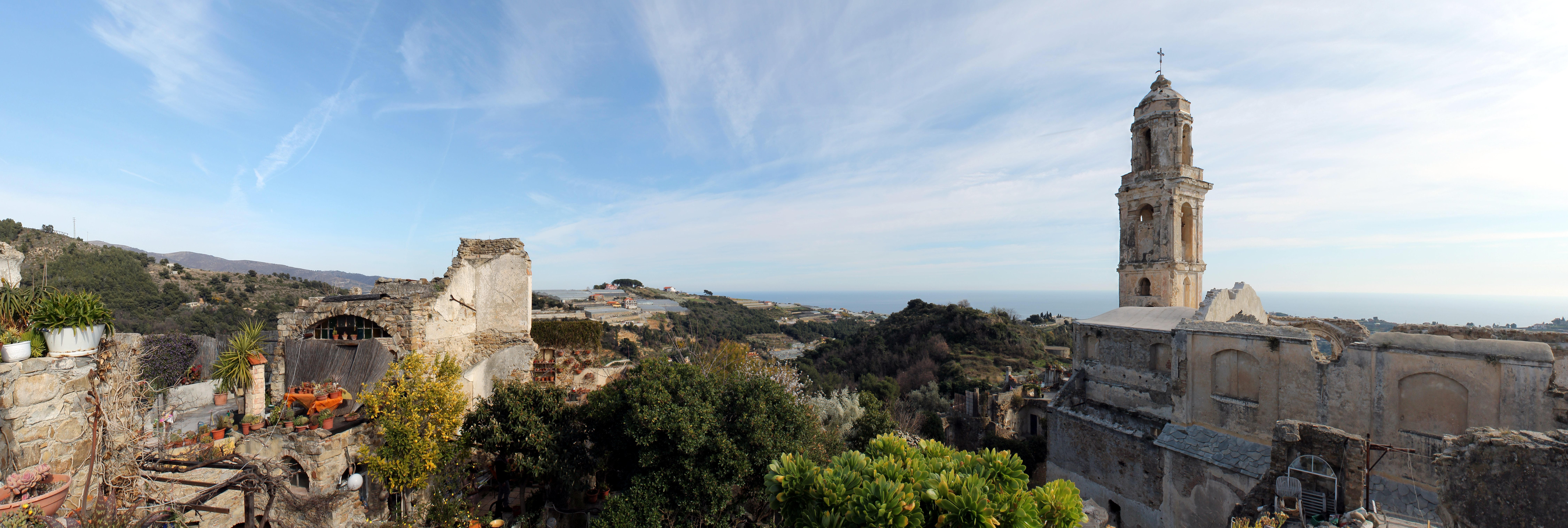 Panoramic view from the top of Bussana Vecchia, Liguria, Italy. On the right there's S'Egidio's curch